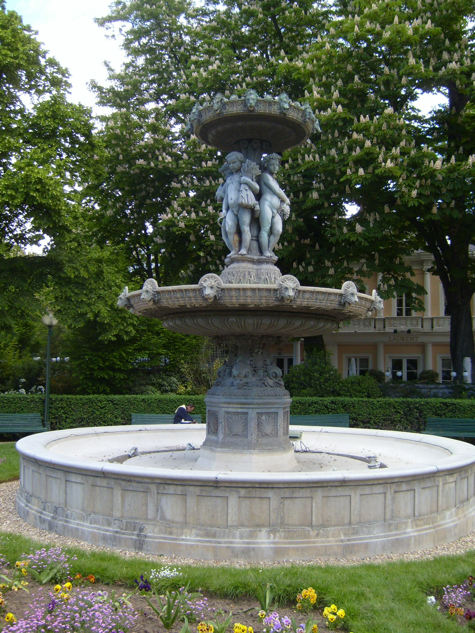 Fontaine du Cirque, Jardins des Champs-Élysées, Paris, Jean-Auguste Barre, 1840